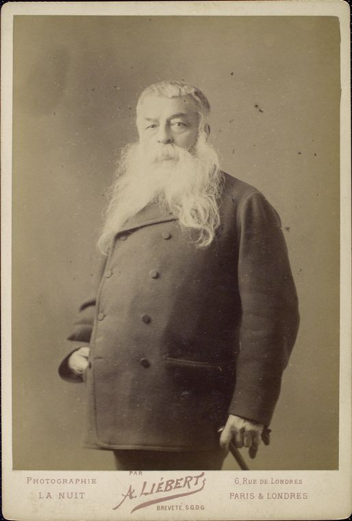 French painter Ernest Meissonnier